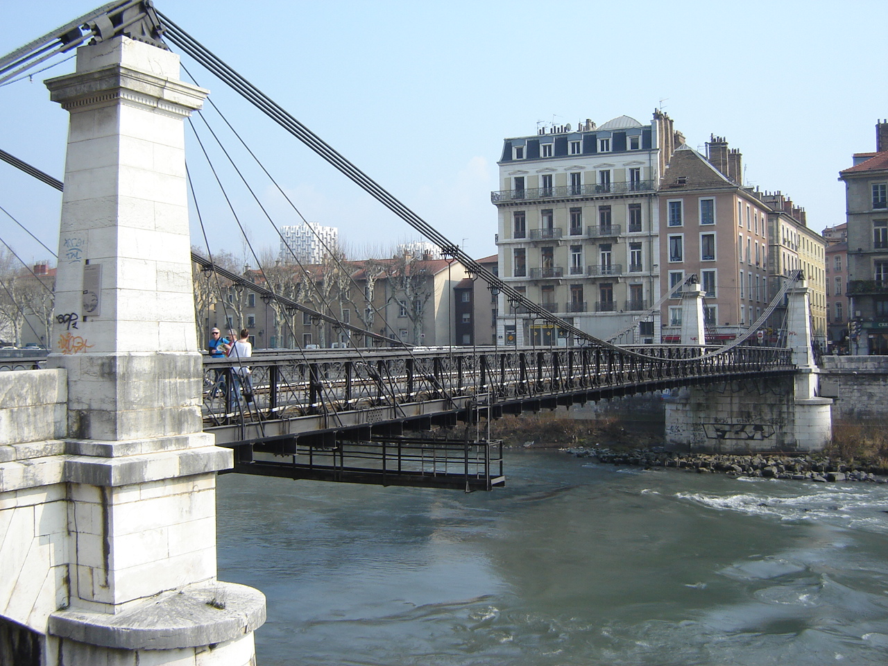 Saint-Laurent bridge, Grenoble